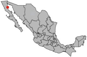 Location map of San Felipe, México.